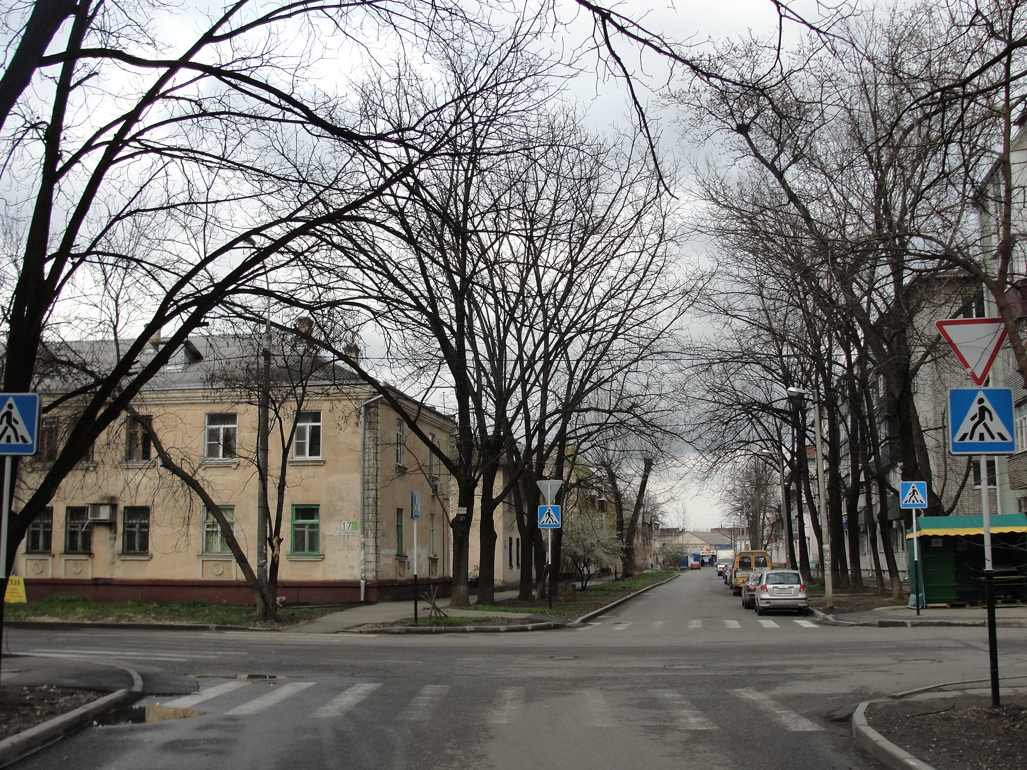 A view of Zavodskaya street in the city of Krasnodar. March 2013.